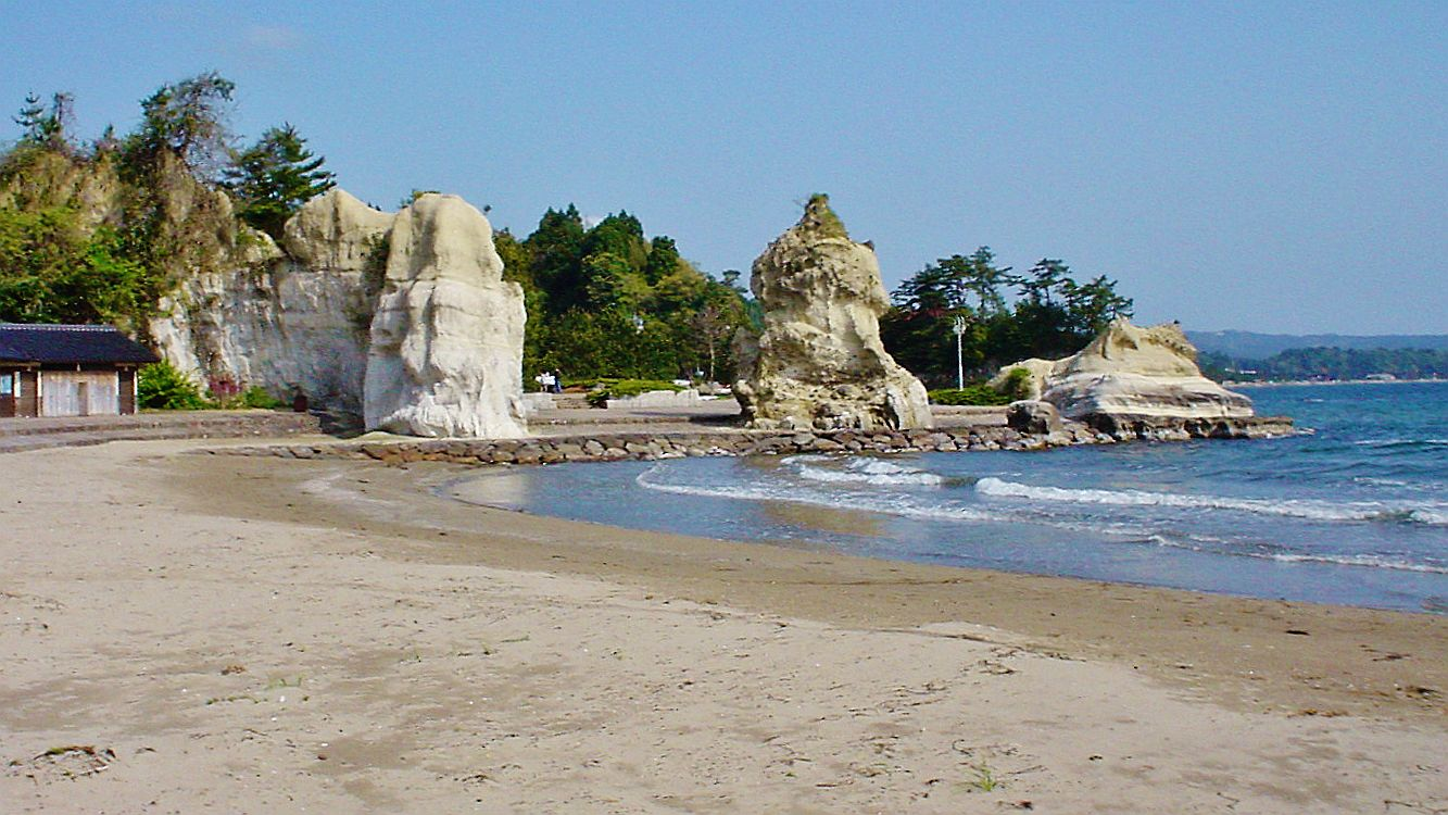 Koiji Coast.